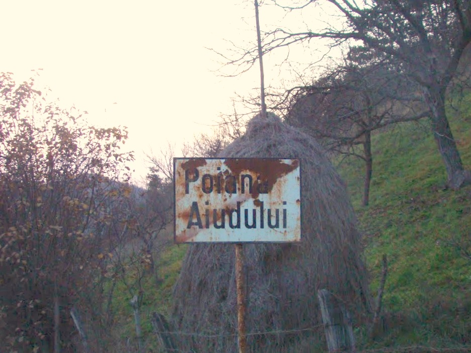 Poiana Aiudului, Alba county, Romania